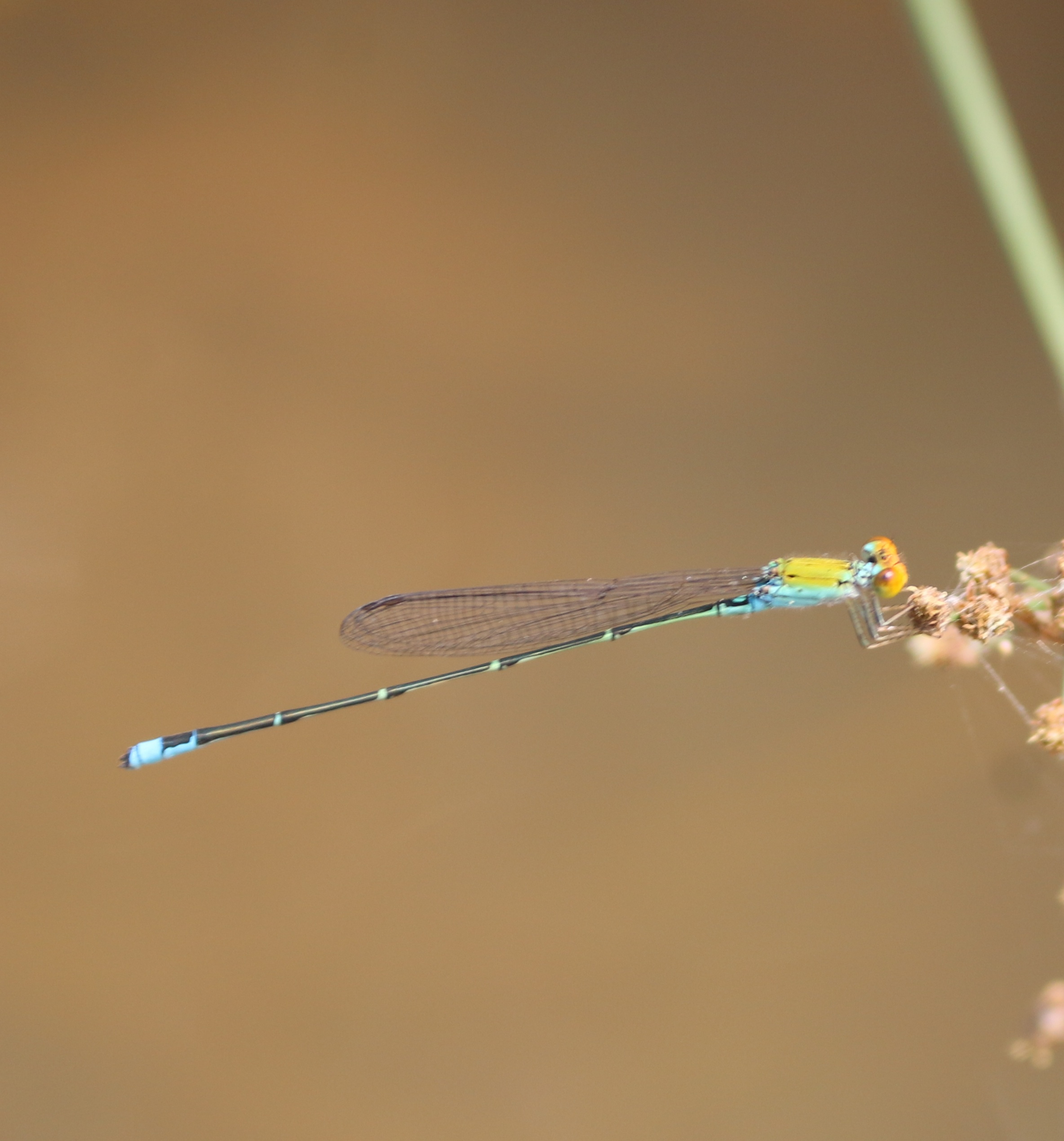 Saffron Faced blue dart- ചെമ്മുഖപൂത്താലി (Pseudagrion rubriceps)